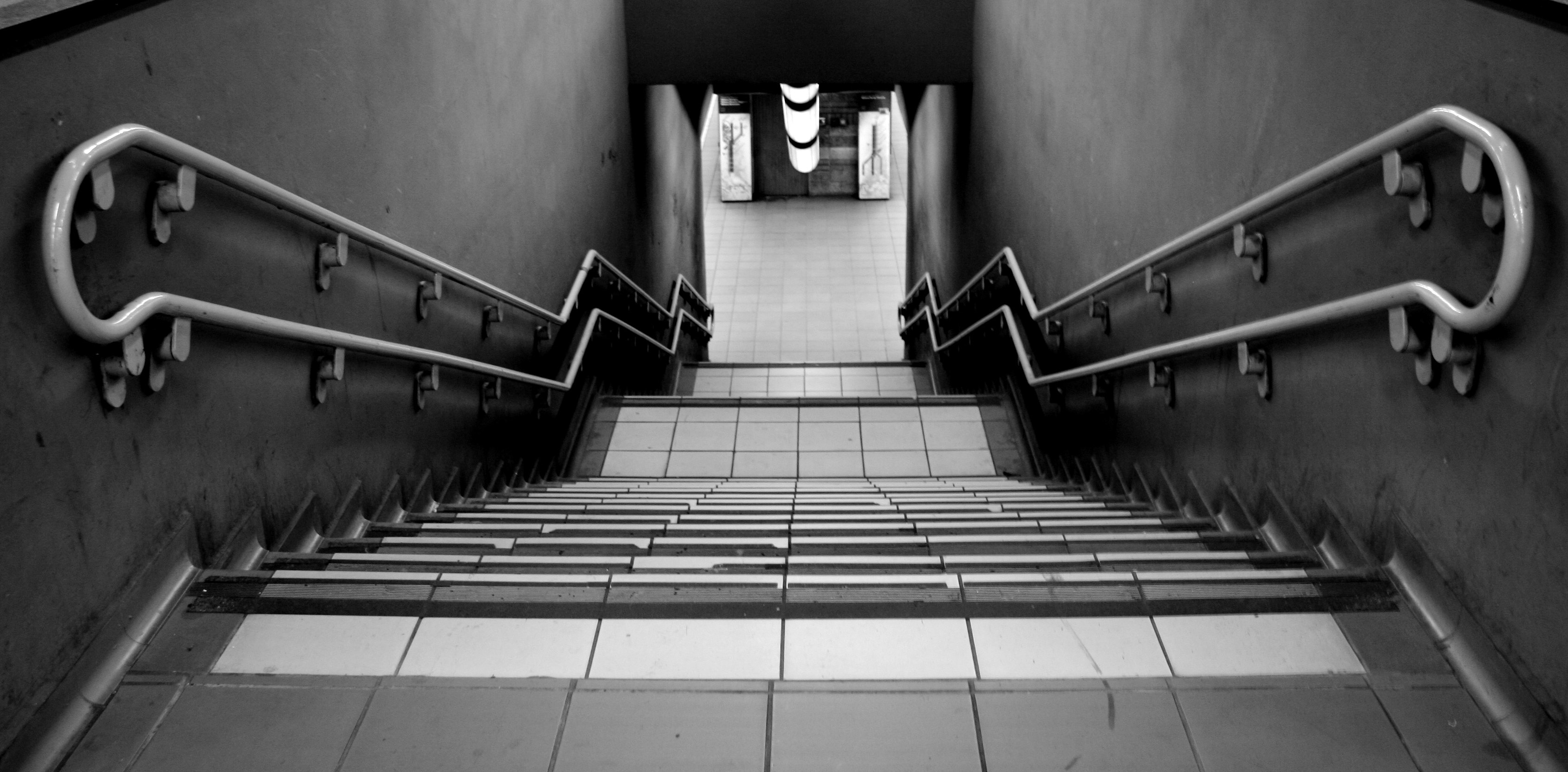 A straight flight of stairs, at Porta Garibaldi sotterranea station, Milan.